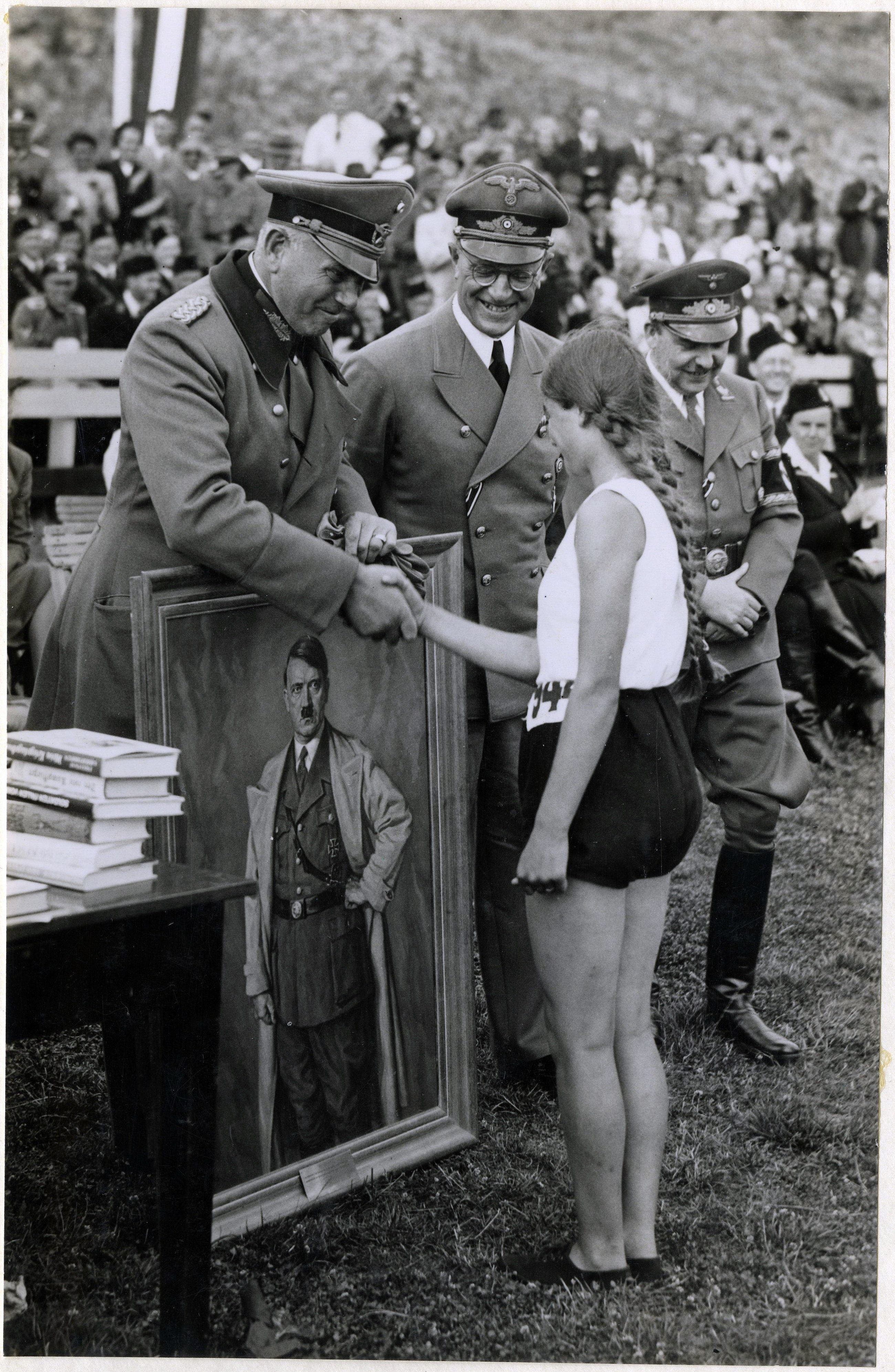 Lieutenant General Otto Schumann (lived 1886-1952, commander-in-chief of the Ordnungspolizei in the Netherlands), Reich Commissioner Arthur Seyss-Inquart and General Commissioner Fritz Schmidt. General Schumann hands a sportswoman a portrait of Adolf Hitler as a prize.